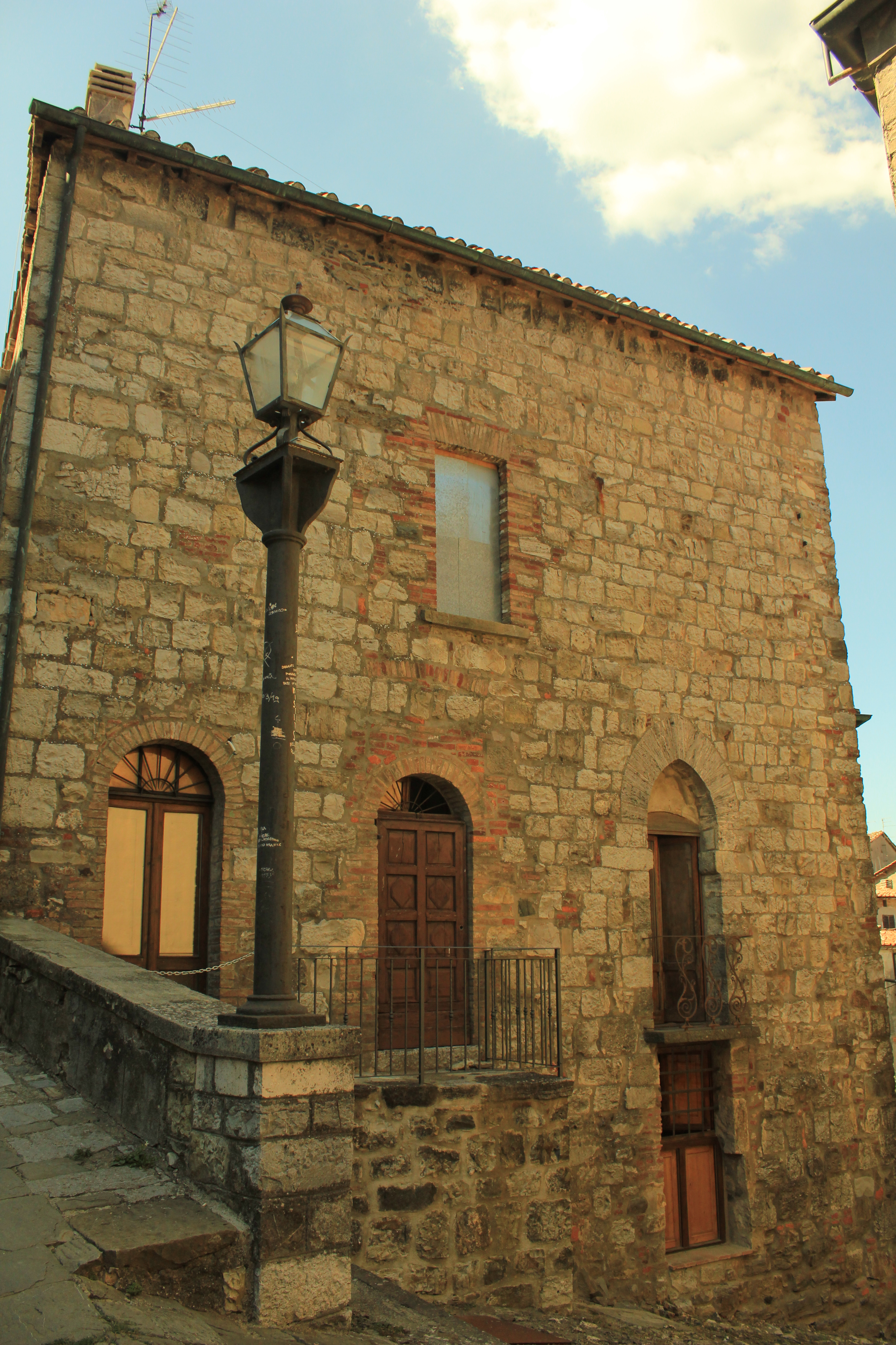 Narducci Tower in Montieri, Grosseto.